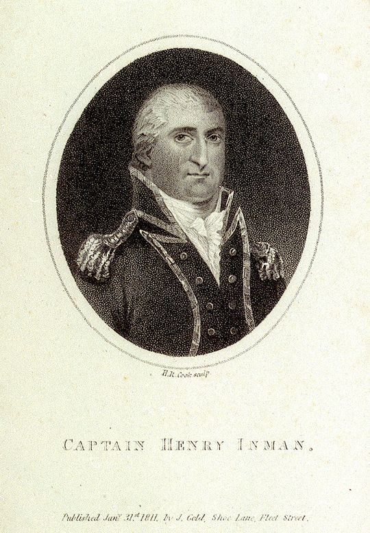 Portrait of Captain Henry Inman (1762-1809), created in 1811 by Henry Cook